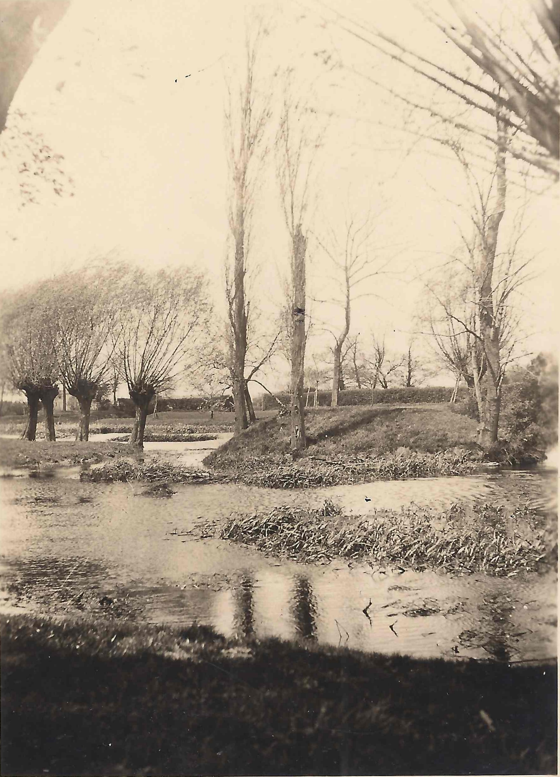 Jülich-Lorsbeck, Motte im Grabensystem, 1929. Künstlicher Hügel, möglicherweise Befestigungsanlage eines Vorgängerbaues von Haus Lorsbeck oder Stelle eines Speichergebäudes. Wassergräben, Kopfweiden, Pappeln